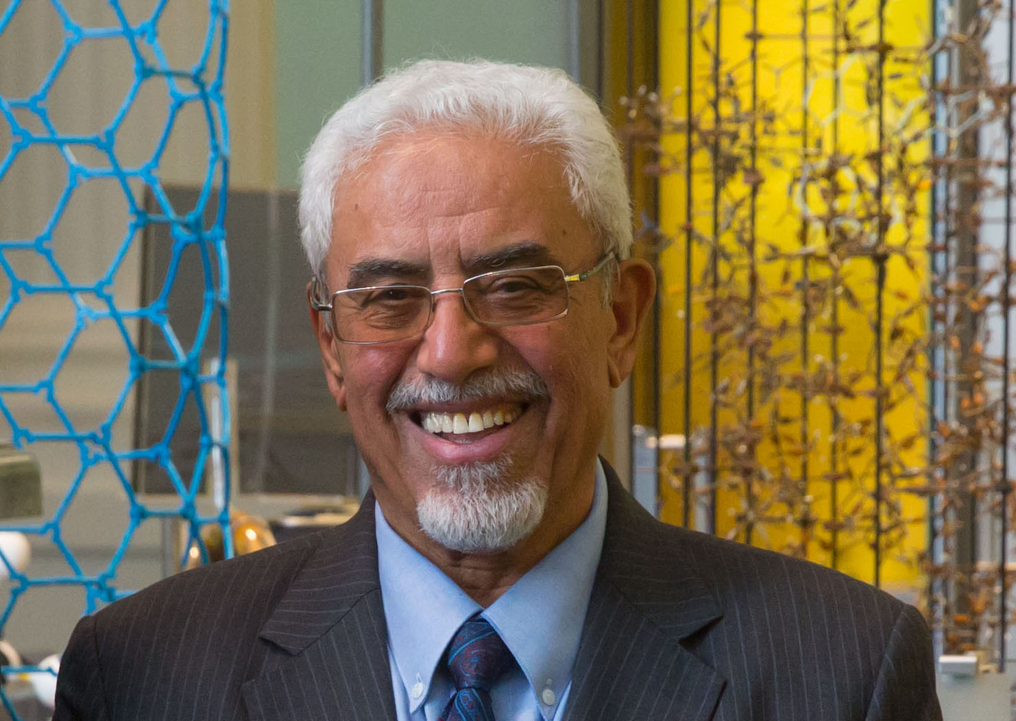 Photograph of His Excellency Abdul Aziz Bin Abdullah Al Zamil, recipient of the 2015 Richard J. Bolte Sr. Award, at Heritage Day, May 14, 2015, at the Chemical Heritage Foundation.